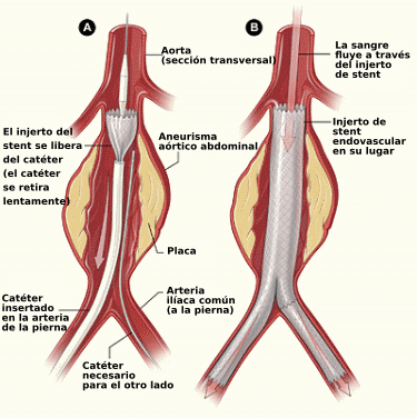 Endovascular Repair